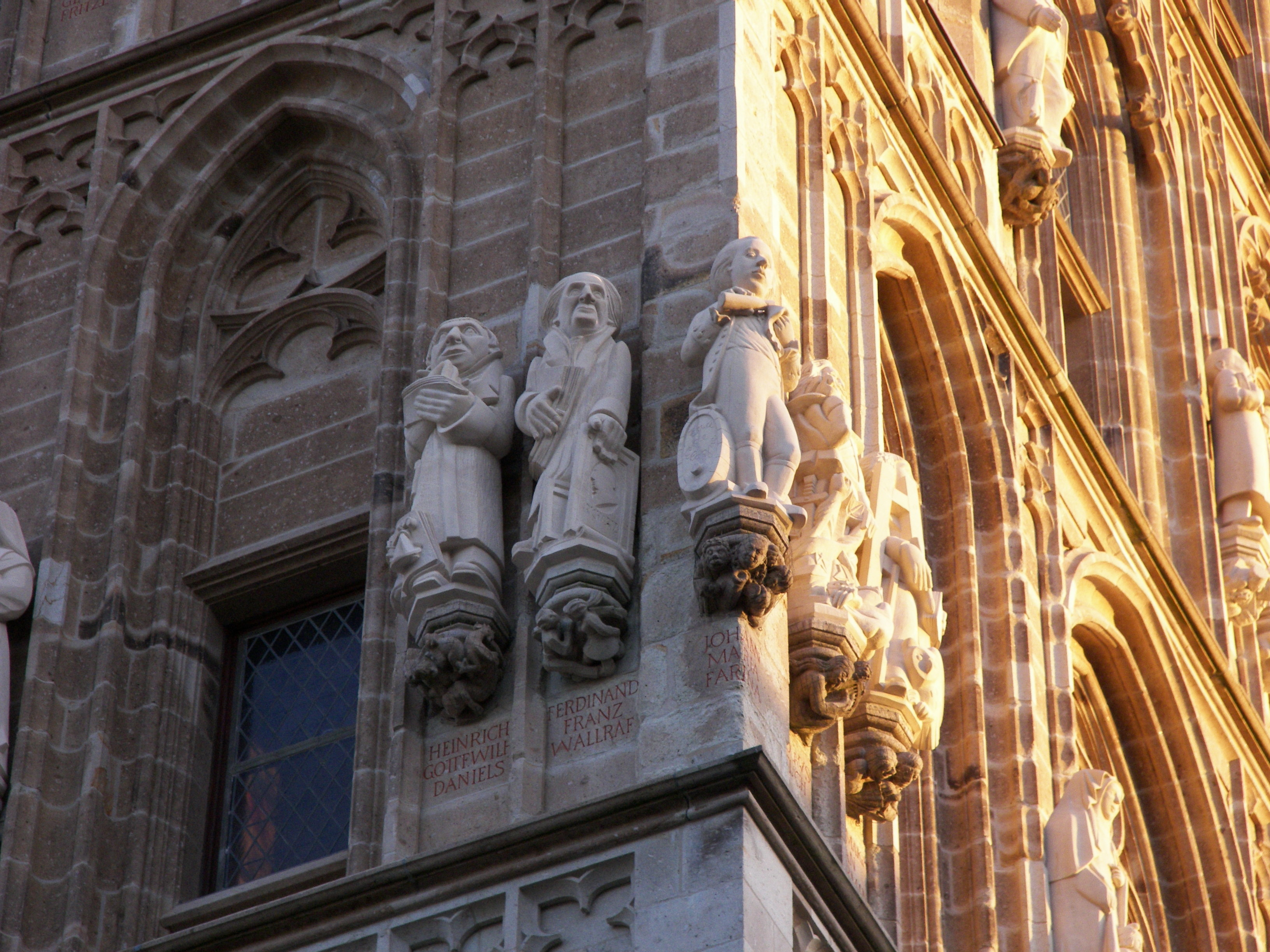 Farina statue on the townhall tower